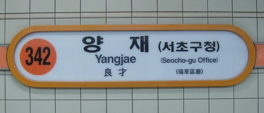 Yangjae Station